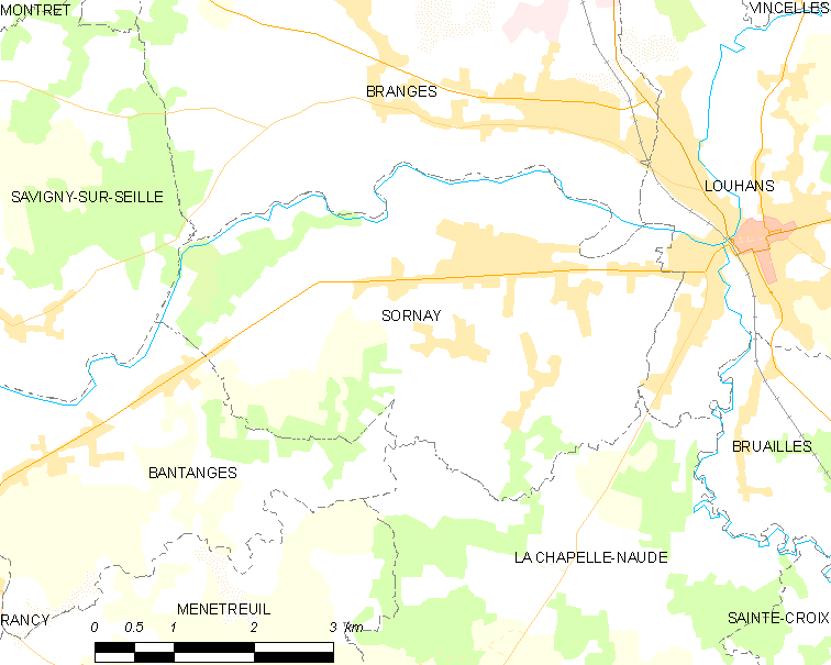 Map of French municipality